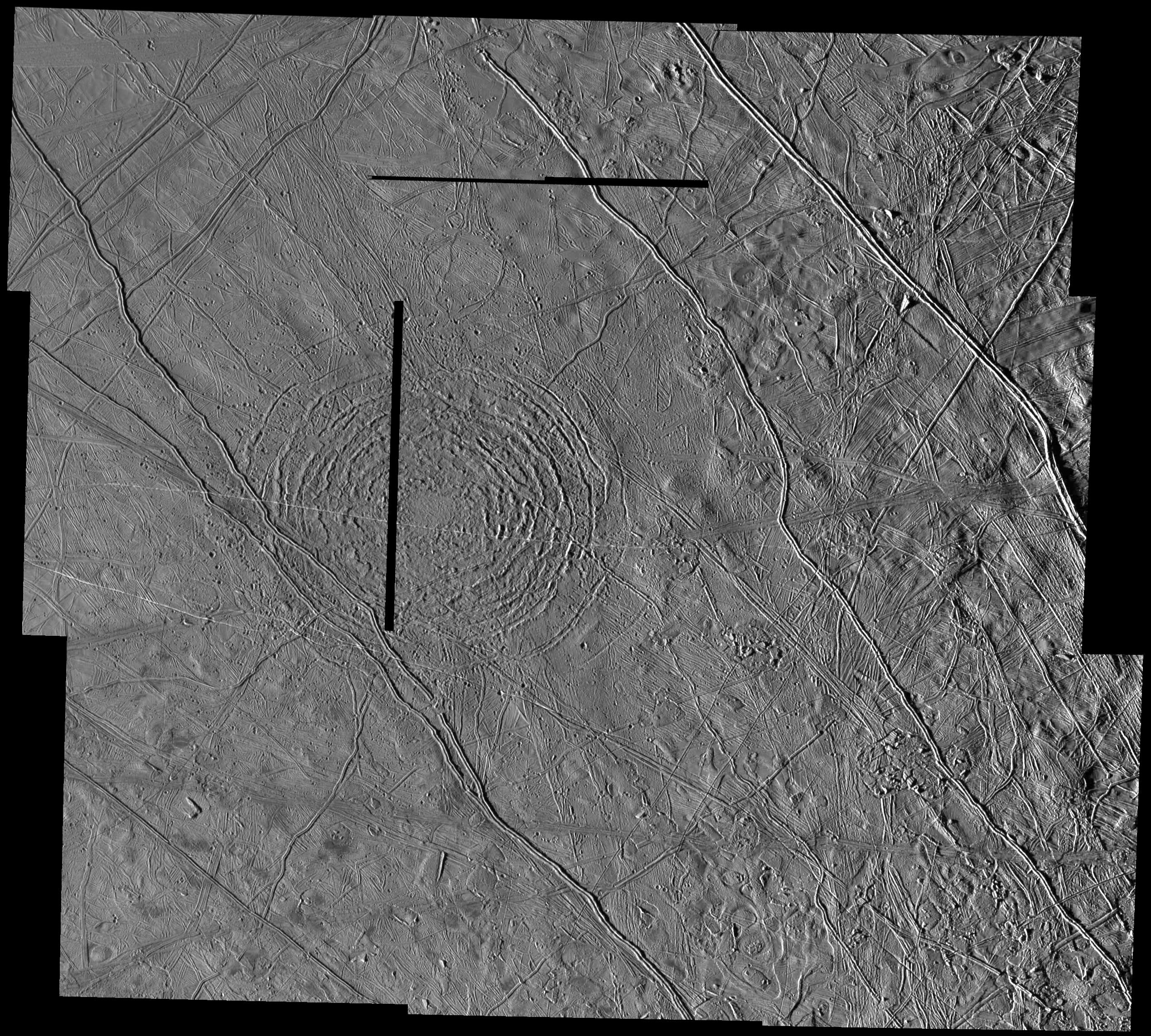 This mosaic shows the Tyre multi-ring structure which is thought to have been formed by a large impact onto Jupiter's moon Europa. The effective crater (large bull's-eye feature) is about 40 kilometers (25 miles) across while the entire structure is much larger. The feature was formerly known as Tyre Macula. The concentric rings, of which five to seven can be discerned easily, consist of troughs and ridges. Tyre is one of the few impact structures on Europa that has concentric rings and may indicate an area where fluid material, perhaps liquid water, lay below the surface at the time of impact. A few ridges within Tyre appear to have been partly destroyed at the time of impact. North is to the top of the picture and the sun illuminates the surface from the left. The mosaic is centered at 34 degrees north latitude and 144 degrees west longitude and covers an area approximately 424 by 456 kilometers (265 by 285 miles). The resolution is 170 meters (185 feet) across. The horizontal and vertical black lines in the mosaic indicate gaps in the data received for this image. The images were taken on March 29, 1998 at a range of approximately 18,000 kilometers (11,250 miles) by the Solid State Imaging (SSI) system on NASA's Galileo spacecraft. The Jet Propulsion Laboratory, Pasadena, CA manages the Galileo mission or NASA's Office of Space Science, Washington, DC. This image and other images and data received from Galileo are posted on the World Wide Web, on the Galileo mission home page at URL Background information and educational context for the images can be found at URL